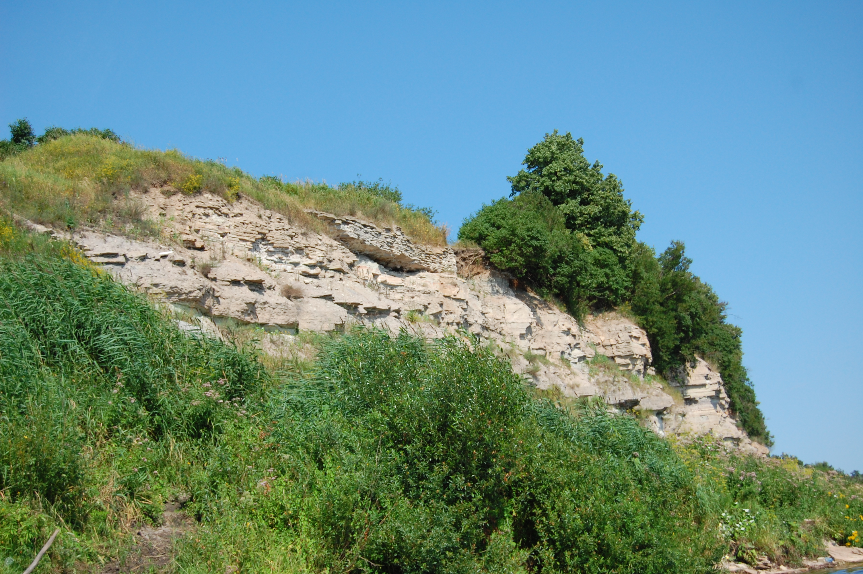 Snetogorsko-Murovitskiy Protected Area in Pskov Region (Russia)